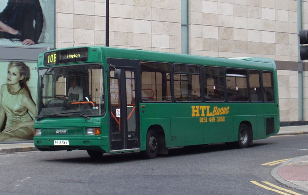 HTL Buses bus (reg. P445 SWX), a 1996 MAN 11.190 single-decker, with Optare Vecta bodywork, pictured in Liverpool.